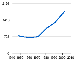 Meljak